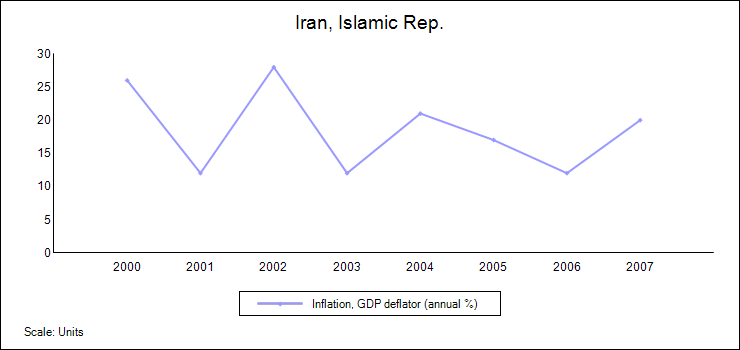 Iran, Inflation, GDP deflator (annual %).